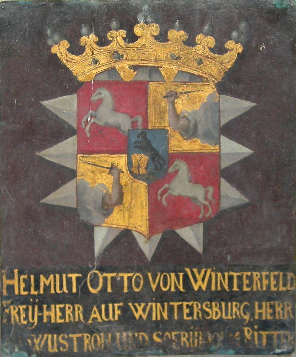 Plate with the coat of arms of Helmut(h) Otto von Winterfeld (1617 - 17/2 1694). Standing on the floor of the side chapel in Halsted Church, Municipality of Lolland, Region Sealand, Denmark.